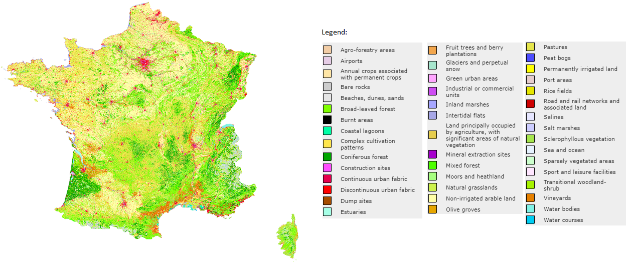 CORINE Land Cover 2006 France